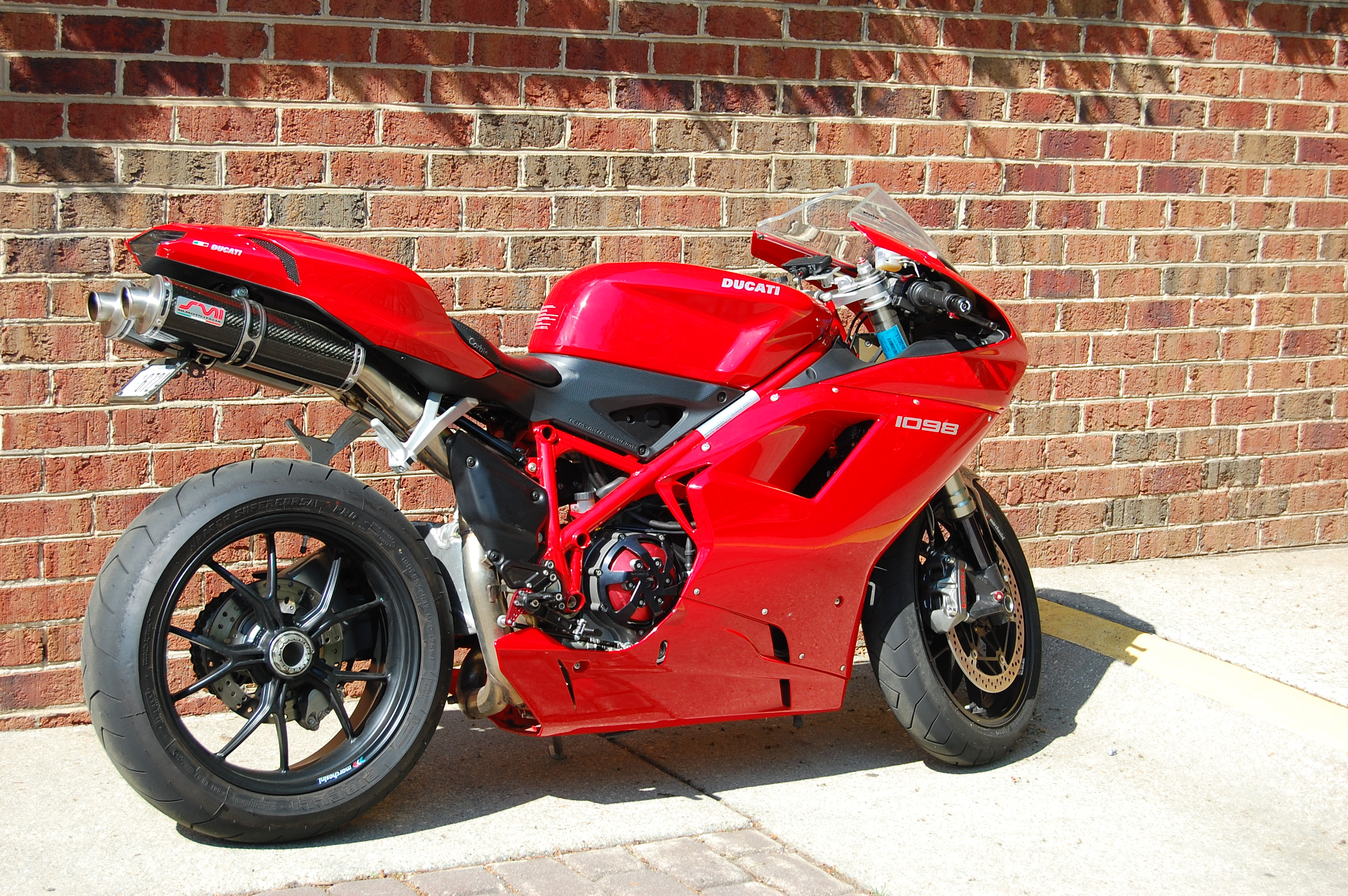 A Ducati 1098 motorcycle seen on the street.